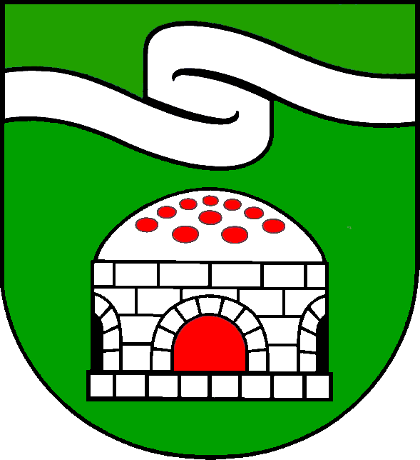 Coat of arms of the municipality Sievershütten in Schleswig-Holstein, Germany.